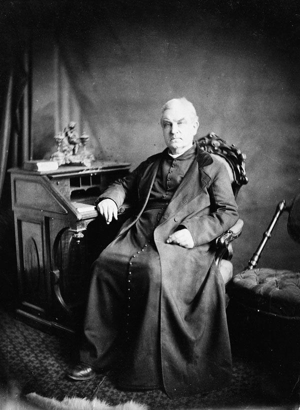 Father Patrick Dowd (1813-1891). Biography here in 2013 article and about his role in the history of Montreal in French